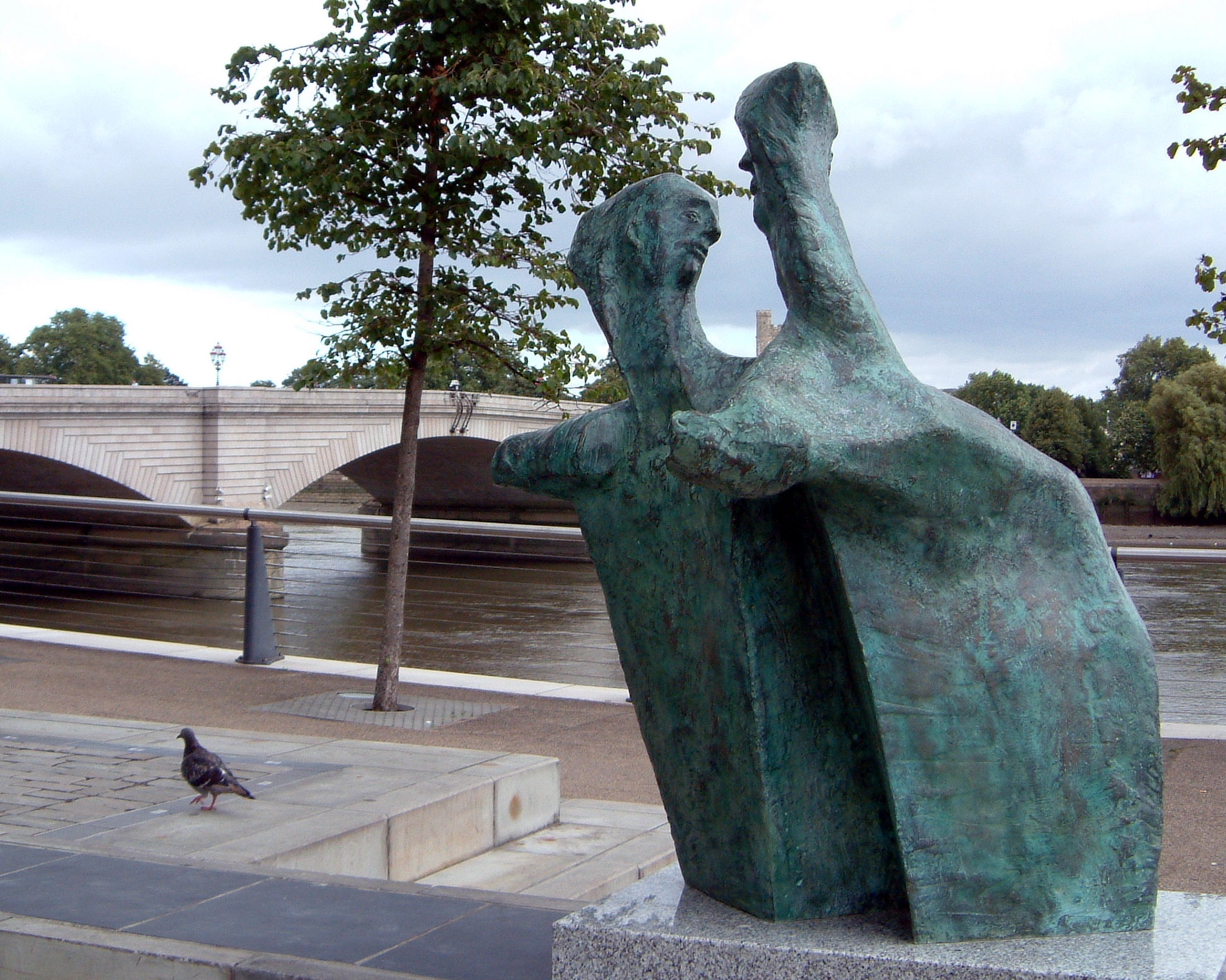 Permanent public sculpture 'Punch and Judy' by artist Alan Thornhill at Putney Wharf, River Thames, Borough of Wandsworth, London